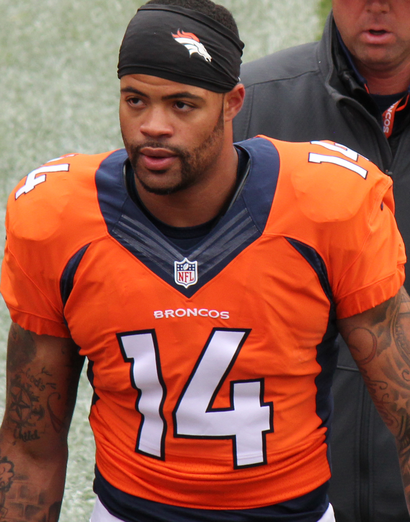 Cody Latimer, a player on the National Football League.